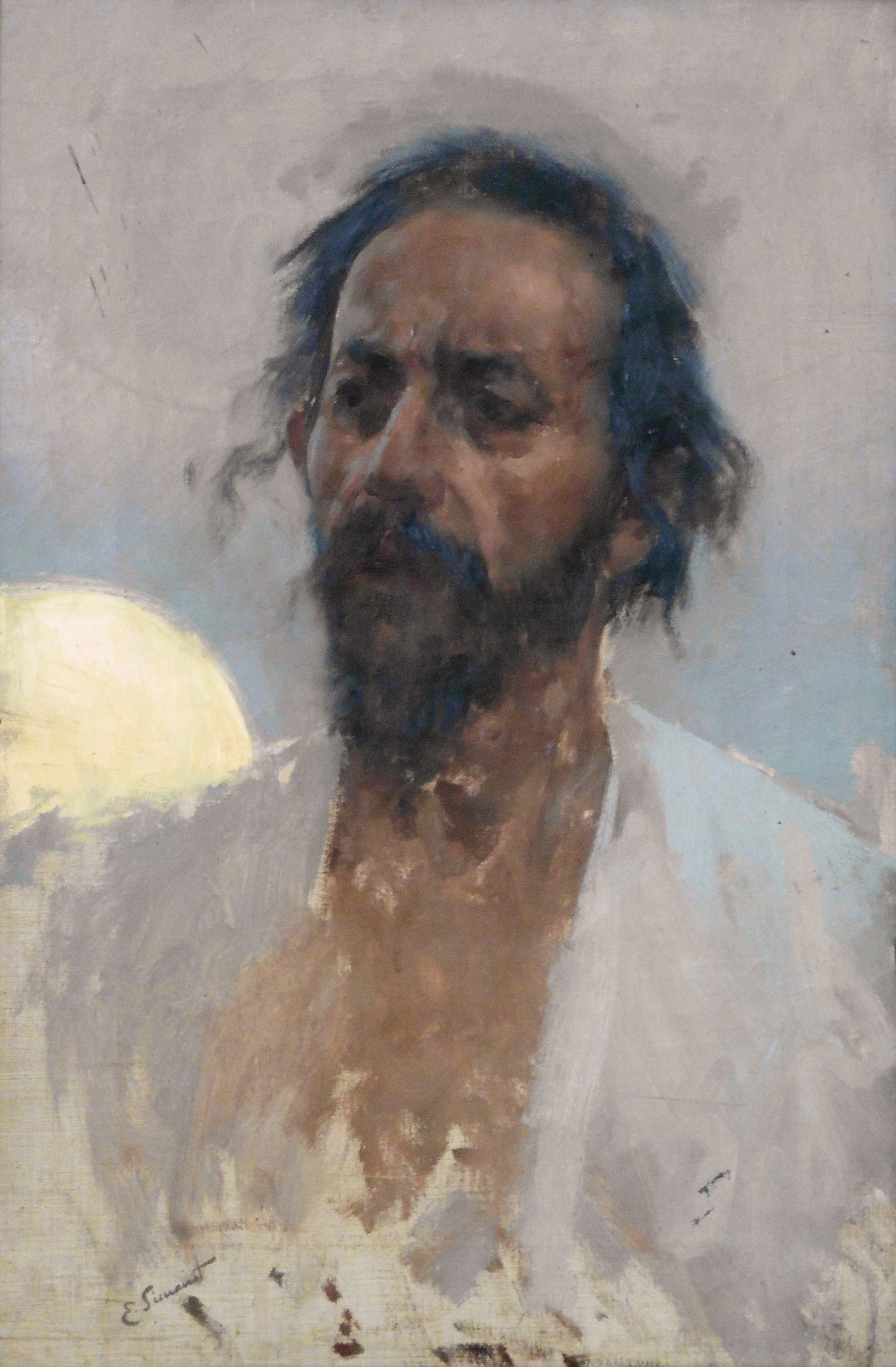 Preliminary study of head image for the painting Flevit super illam.